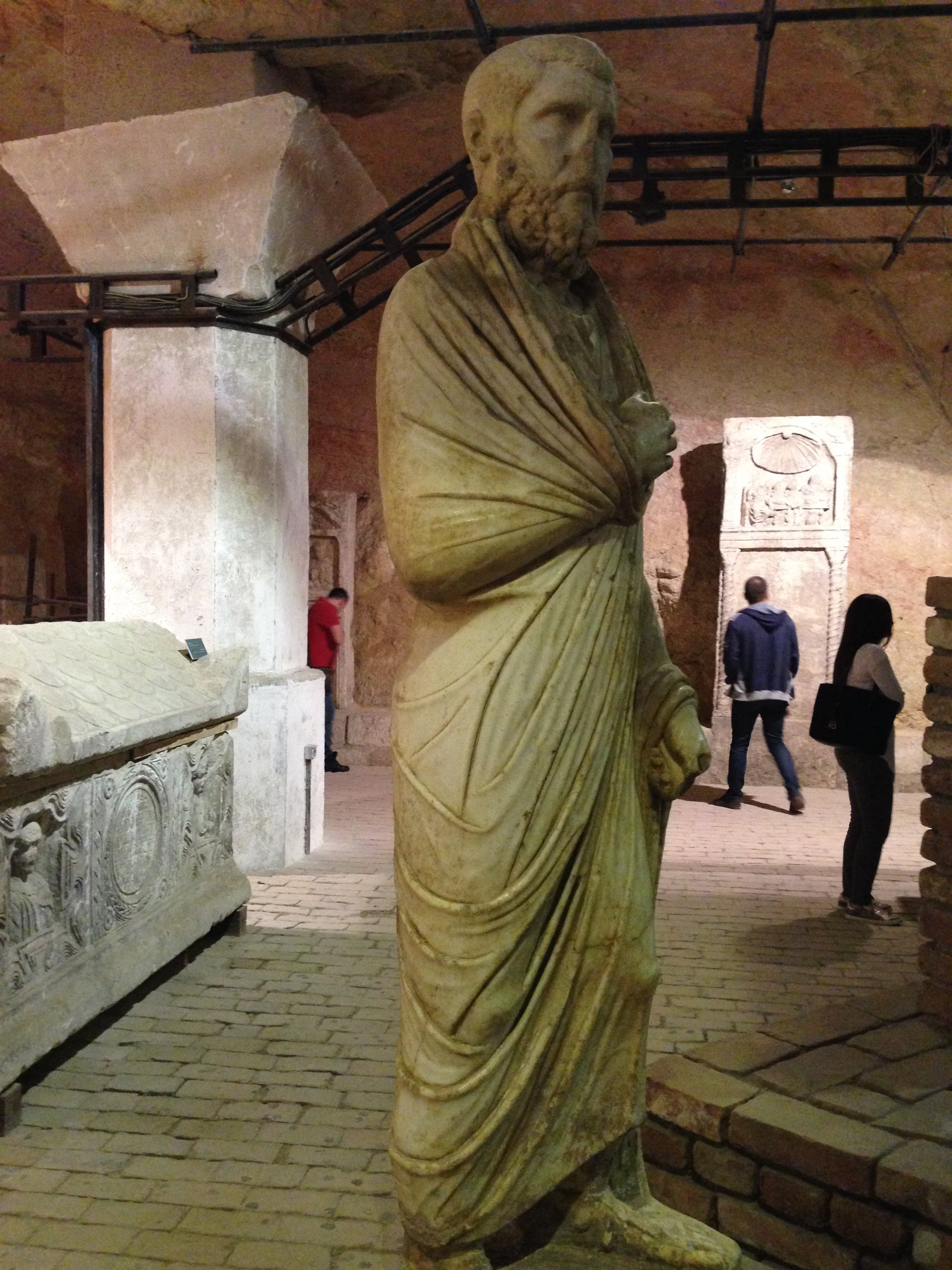 Lapidarium Big Barutana Belgrade Fortress. 2018.